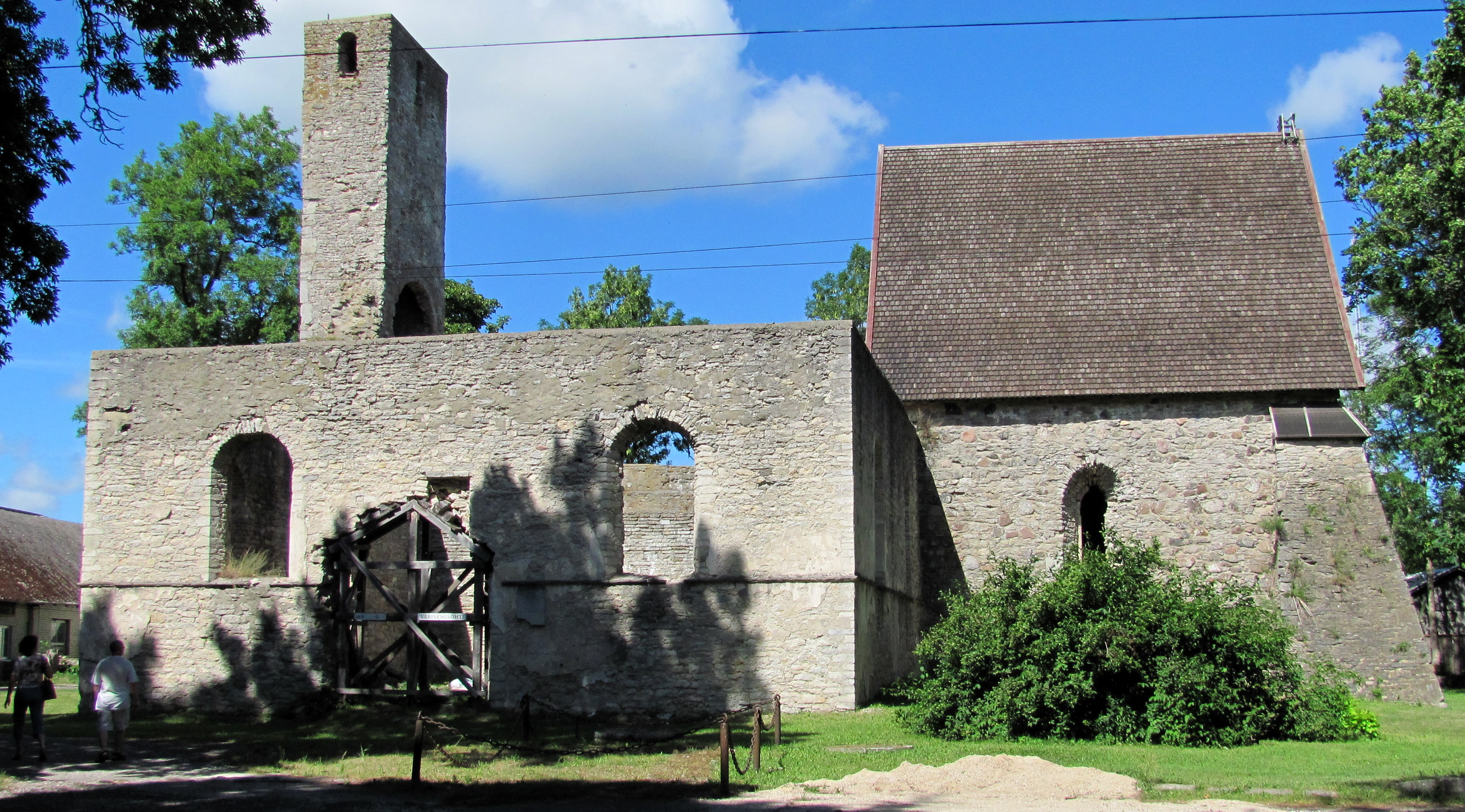 Church of Käina, Hiiumaa.